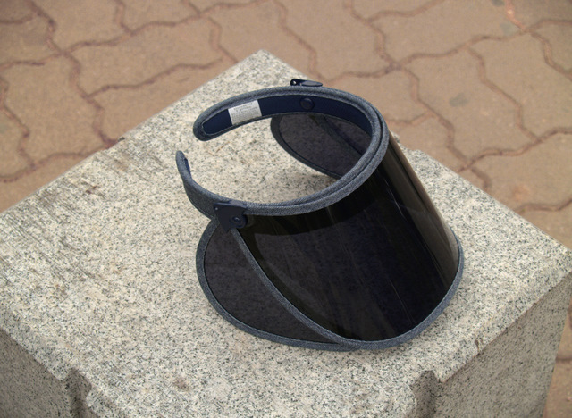 Photo by Nathaniel Palug